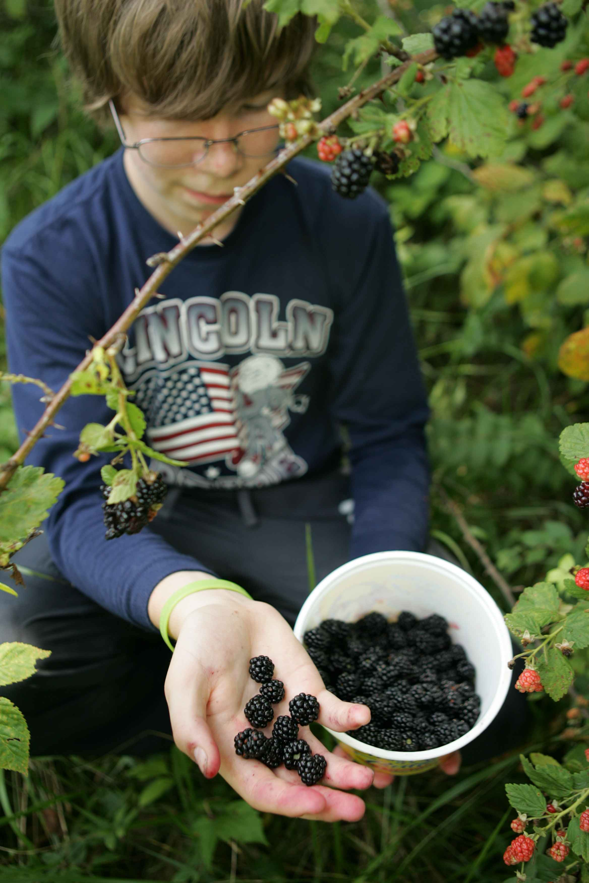 Image title: Delicious blackberries Image from Public domain images website